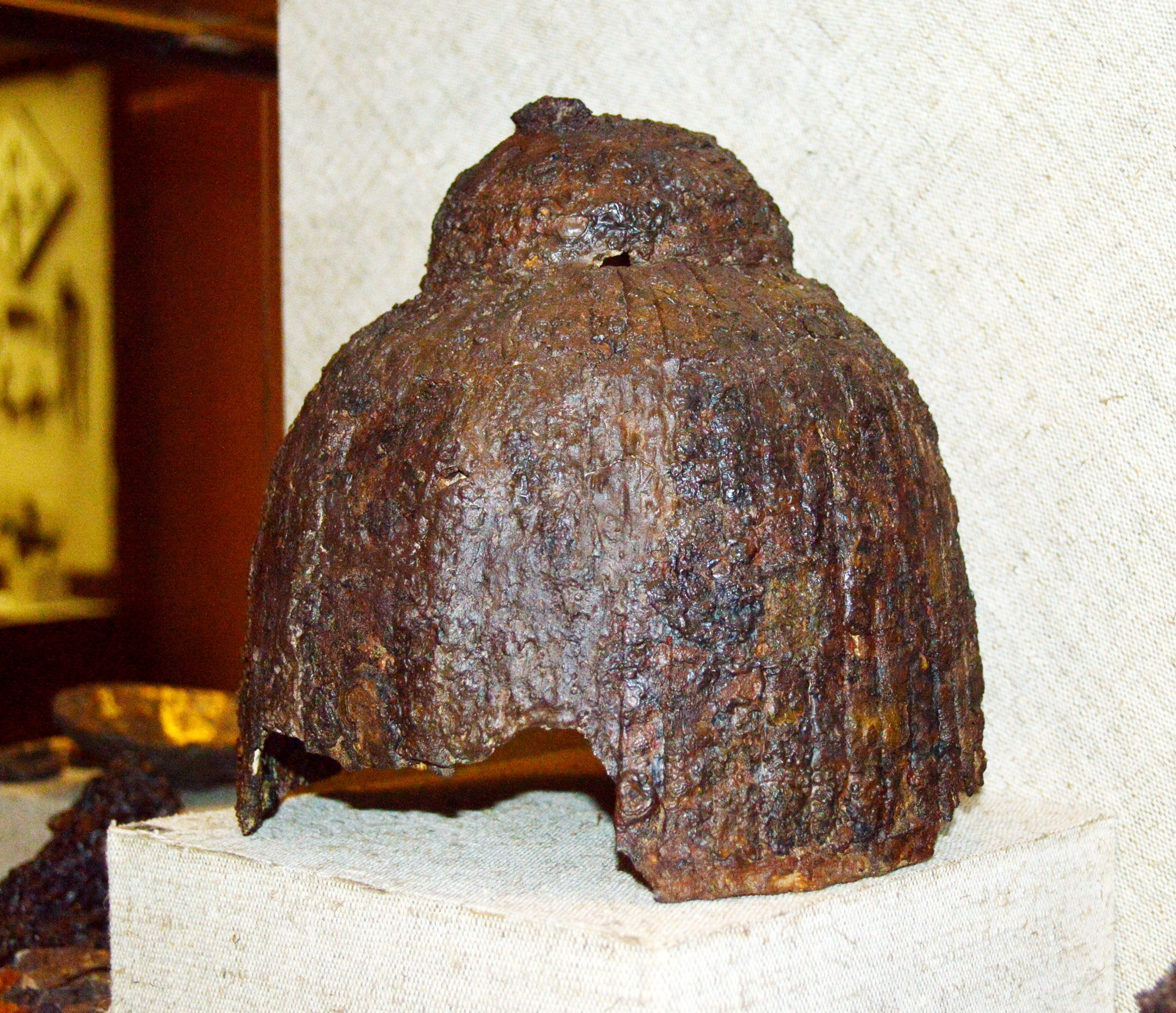 Helm, iron, Kerch.